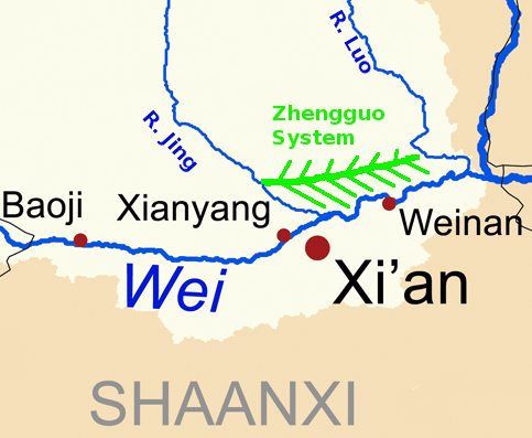 This is a sketch map of the Zhengguo Canal irrigation system.